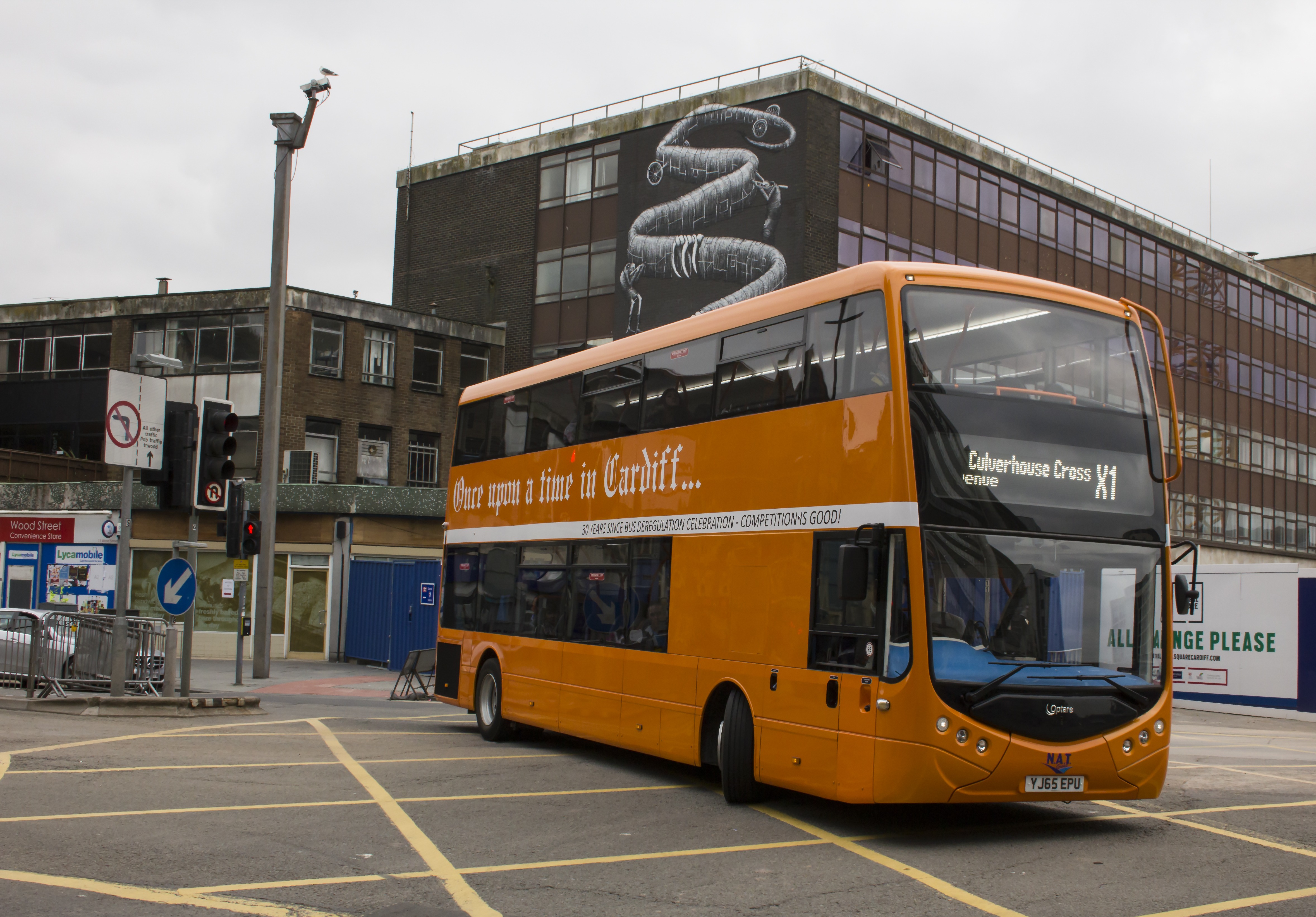 Optare Metro Decker - YJ65 EPU - currently on loan to New Adventure Travel (NTA) is seen operating service X1 in Cardiff.